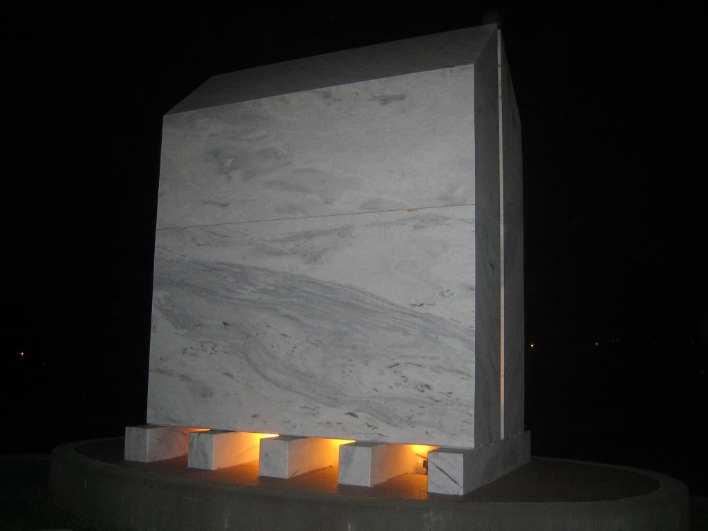 The Armenian Genocide Memorial in the Marcelin-Wilson Park in Montreal.